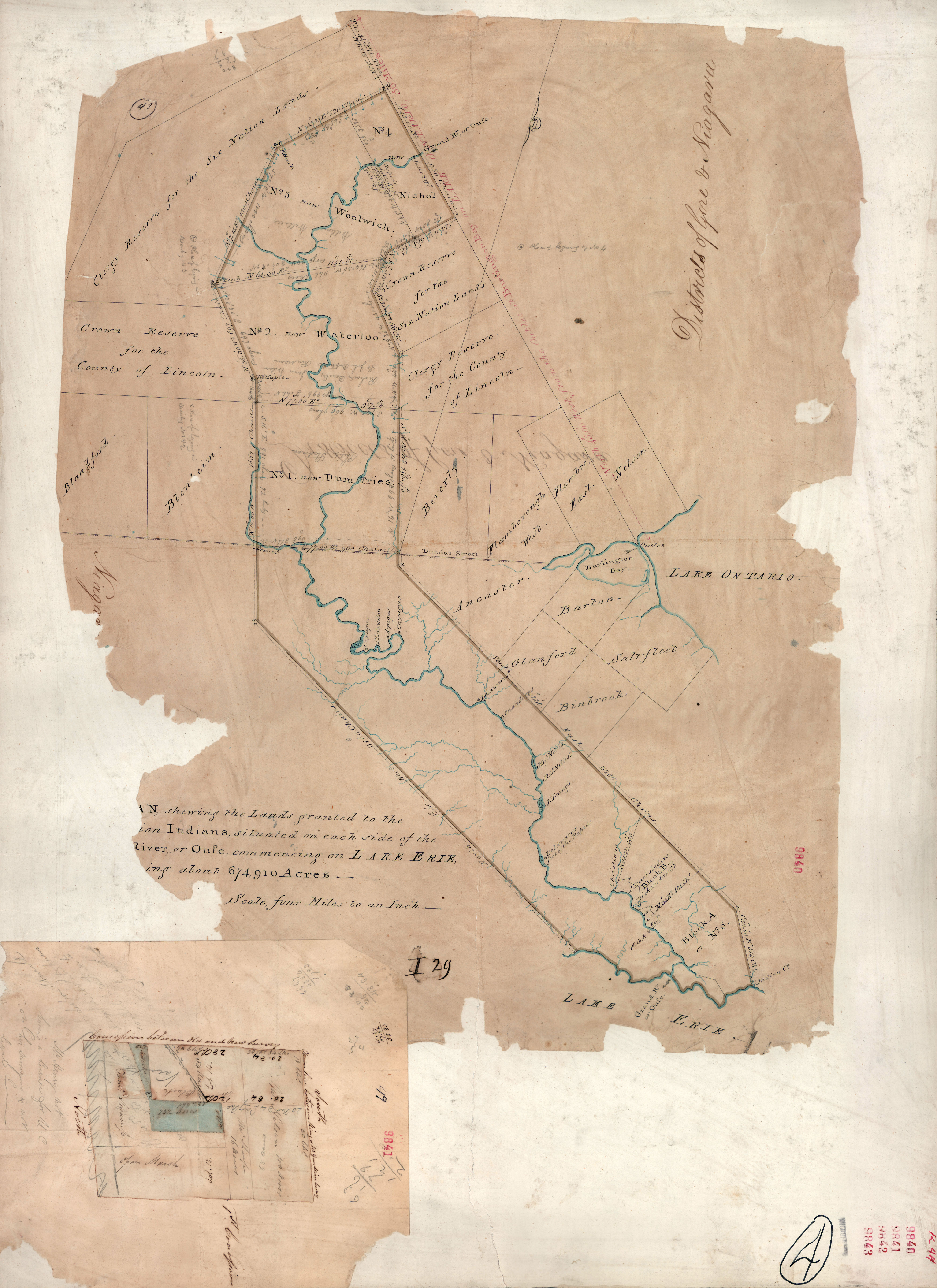 This is a scan of a 1821 survey from Public Archives of Canada